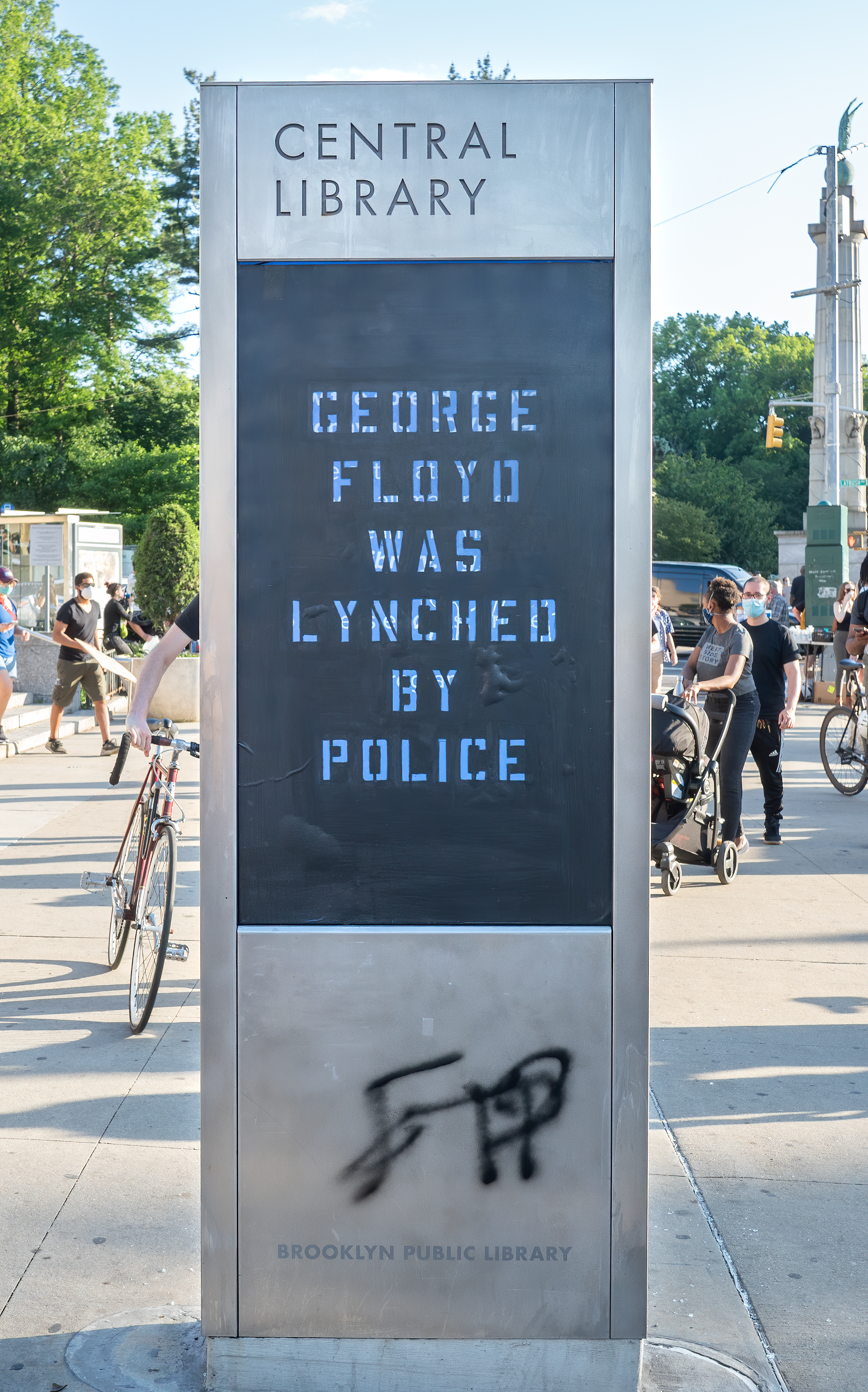 Rally in Grand Army Plaza after the death of George Floyd